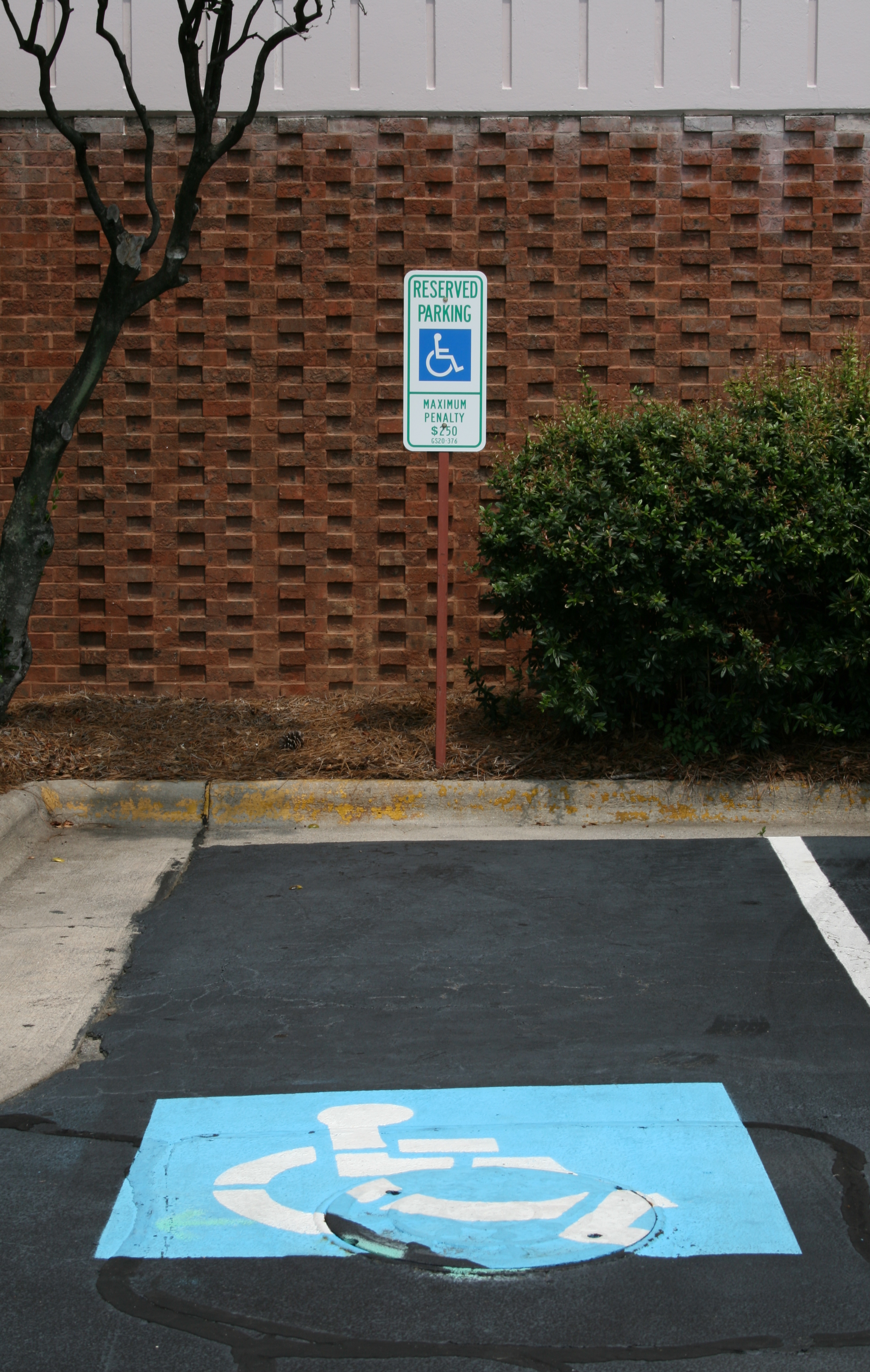 A misoriented manhole cover in a handicapped parking spot next to Granville Towers at the University of North Carolina at Chapel Hill.